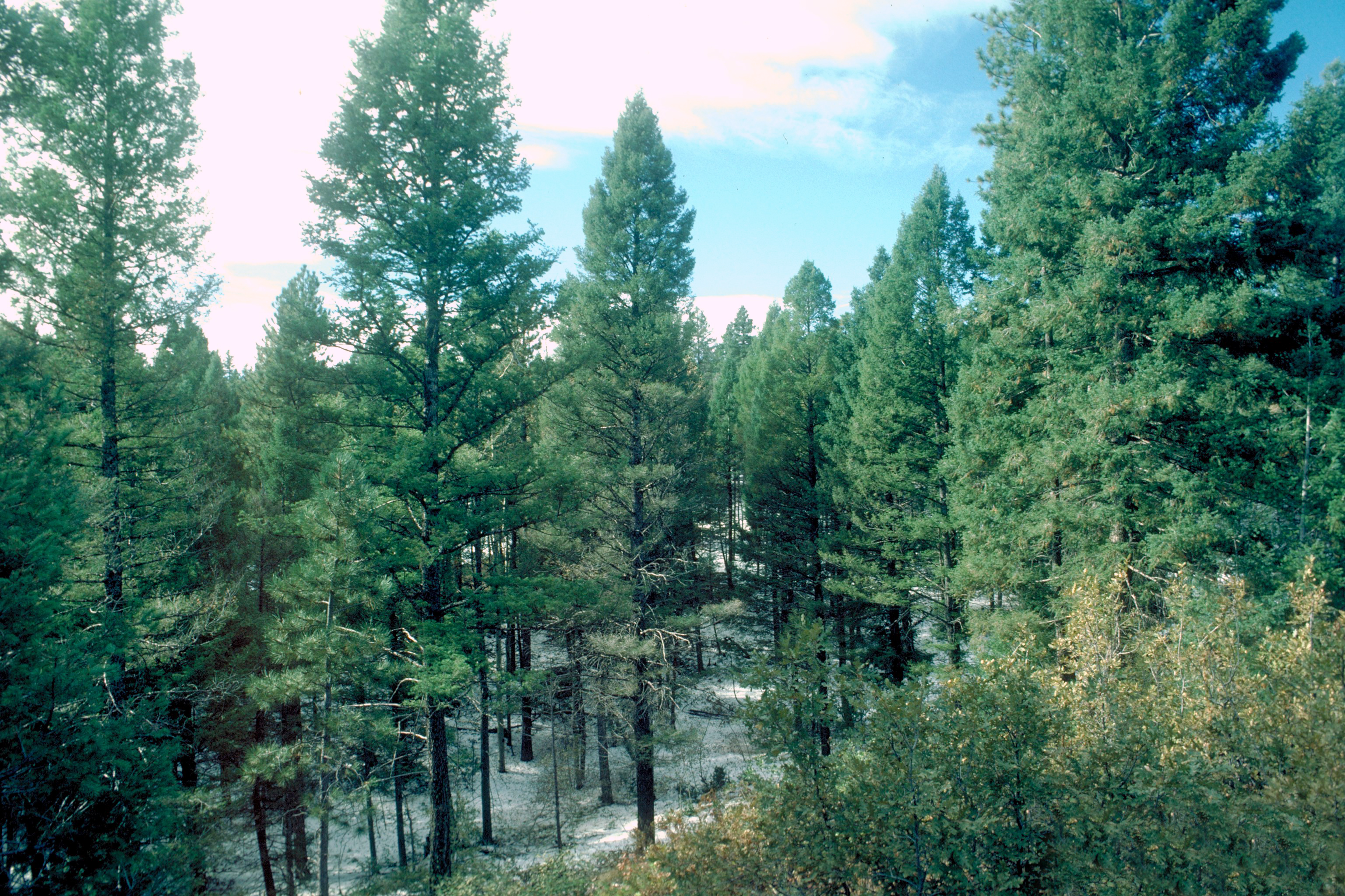 Pseudotsuga menziesii subsp. glauca (Rocky Mountain Douglas-fir) forest. South Platte Ranger District, Pike National Forest, Rocky Mountains, south-central Colorado.